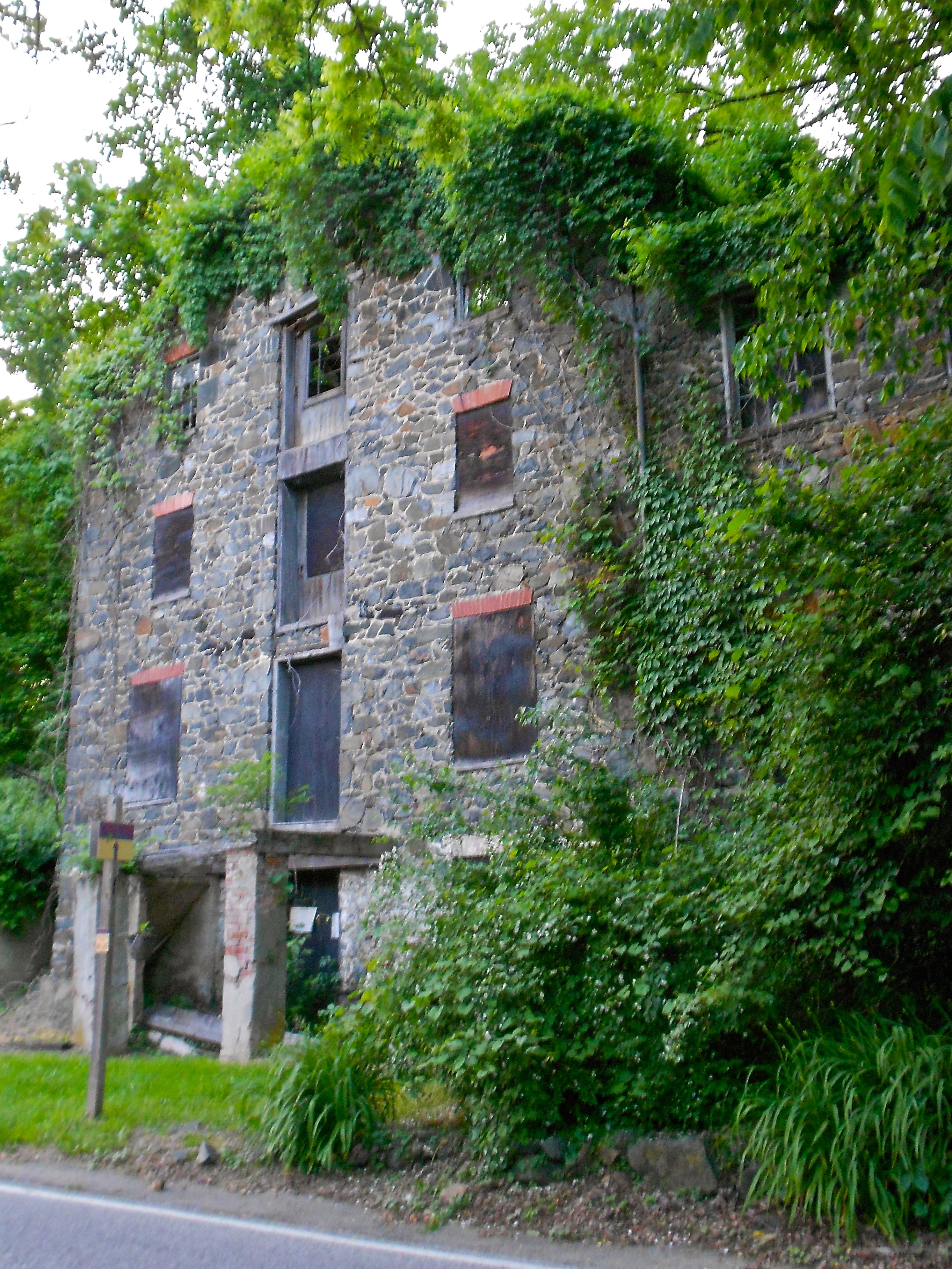 Mill on Franklintown Road in the Franklintown Historic District which was listed on the NRHP on November 11, 2001. The district includes 5100-5201 N. Franklintown Rd. (southern boundary), 1707-1809 N. Forest Park Ave., 5100 Hamilton Ave., and 5100 Fredwall Ave. in Baltimore, Maryland (western border)